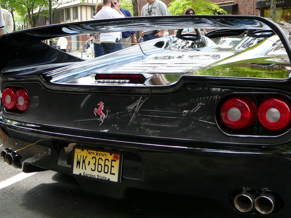 Back side of a Ferrari F50